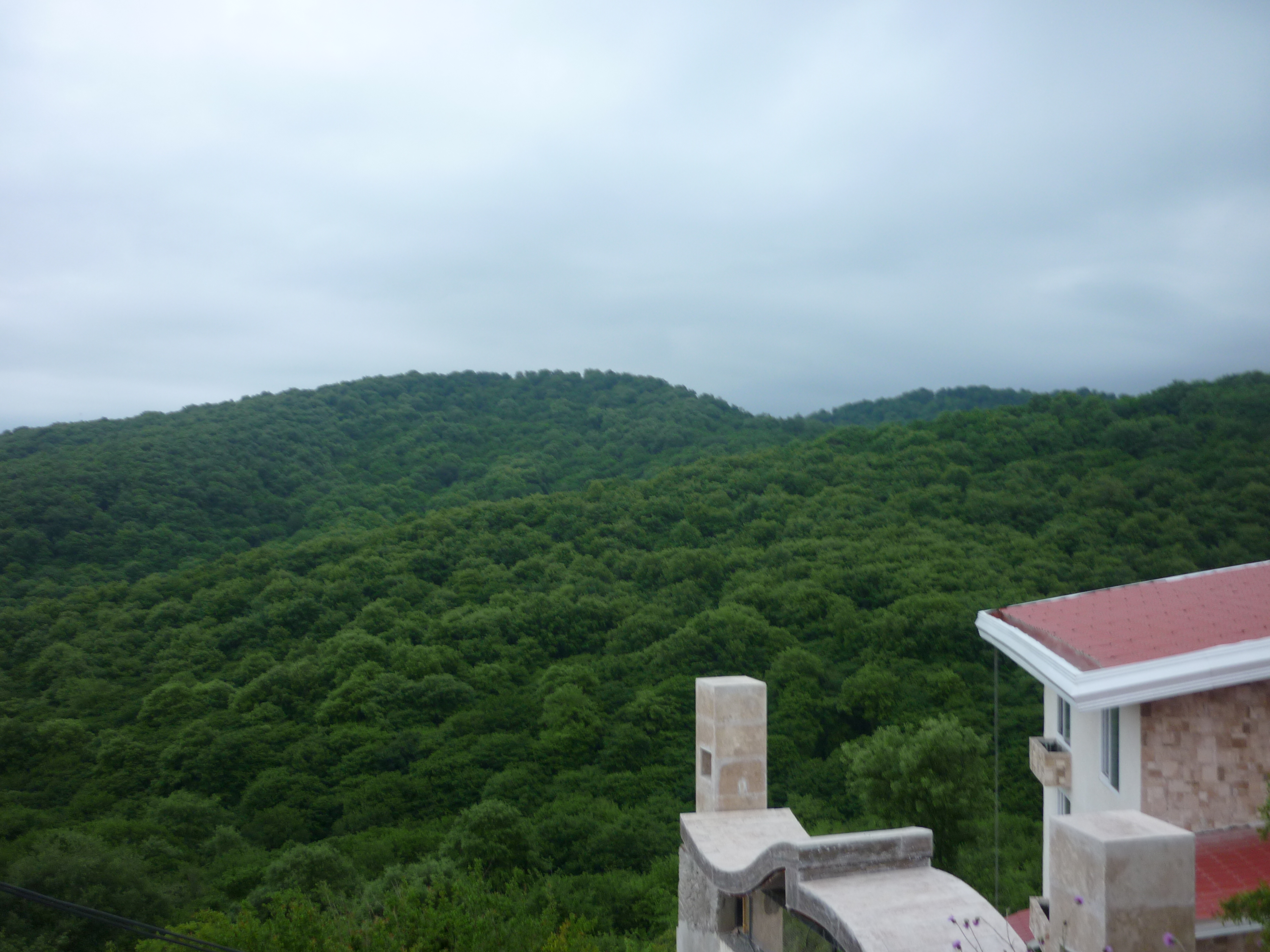 Asia jungle-iran